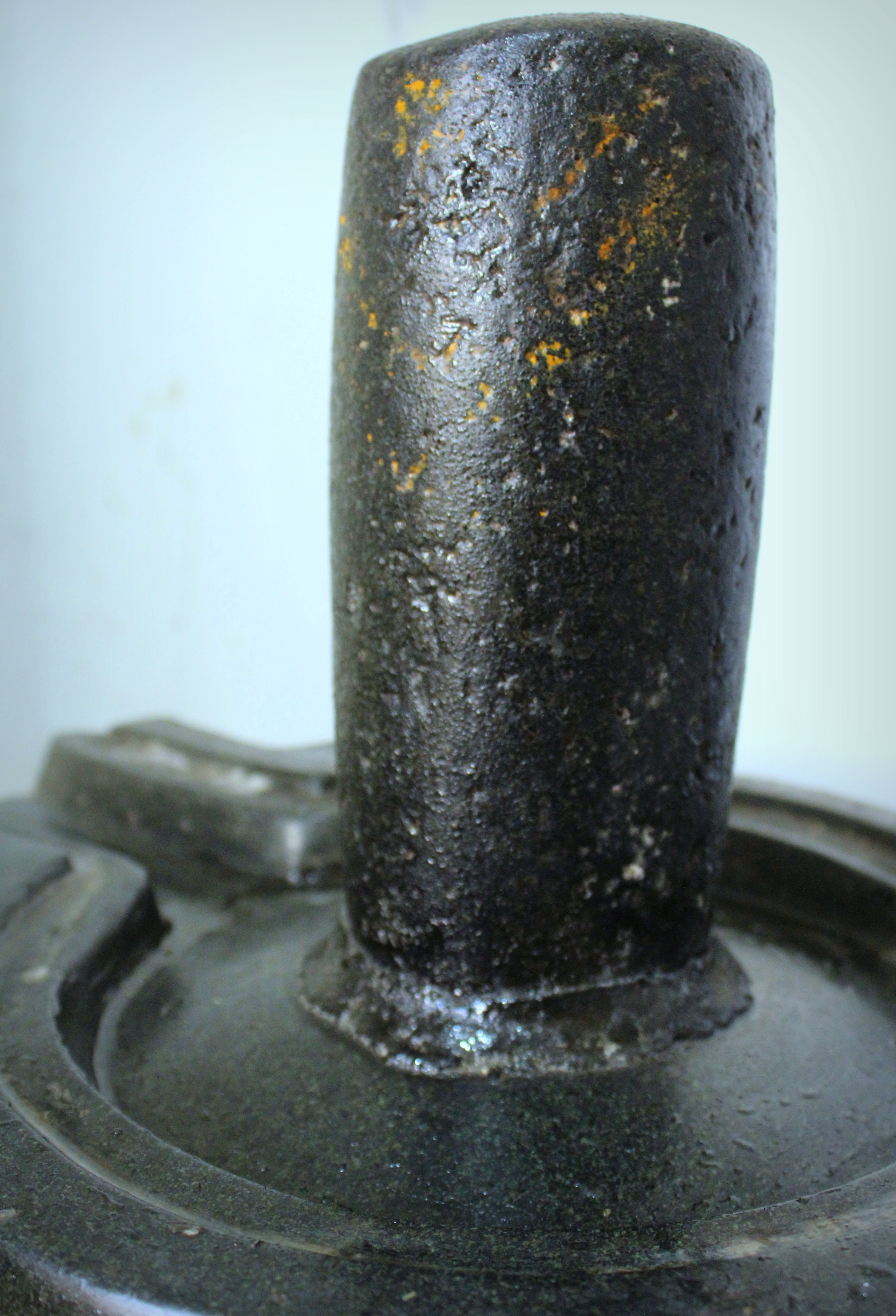 Kashiswar Bhairava or Kashiswara Jiu is a banlingam established by Kashiswar Dutta Chowdhury in mid-17th century AD, after he discovered it in the Saraswati River. The God is the guardian deity of Dutta Chowdhury family, Andul, Howrah.